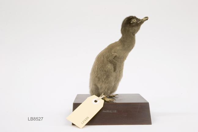 Specimen of Adélie Penguin (Pygoscelis adeliae) chick held at Auckland Museum